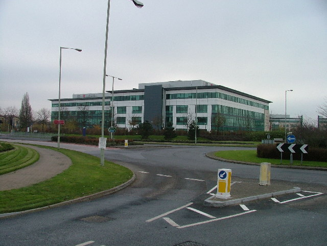 T-Mobile UK HQ(Now EE HQ). Just a small part of a large business park. Most of this land used to be de Haviland or British Aerospace.